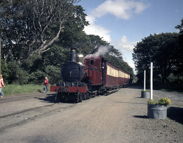 Castletown station Isle of Man Railways locomotive no 4 'Loch' enters Castletown station with a train from Douglas, destined for Port Erin.